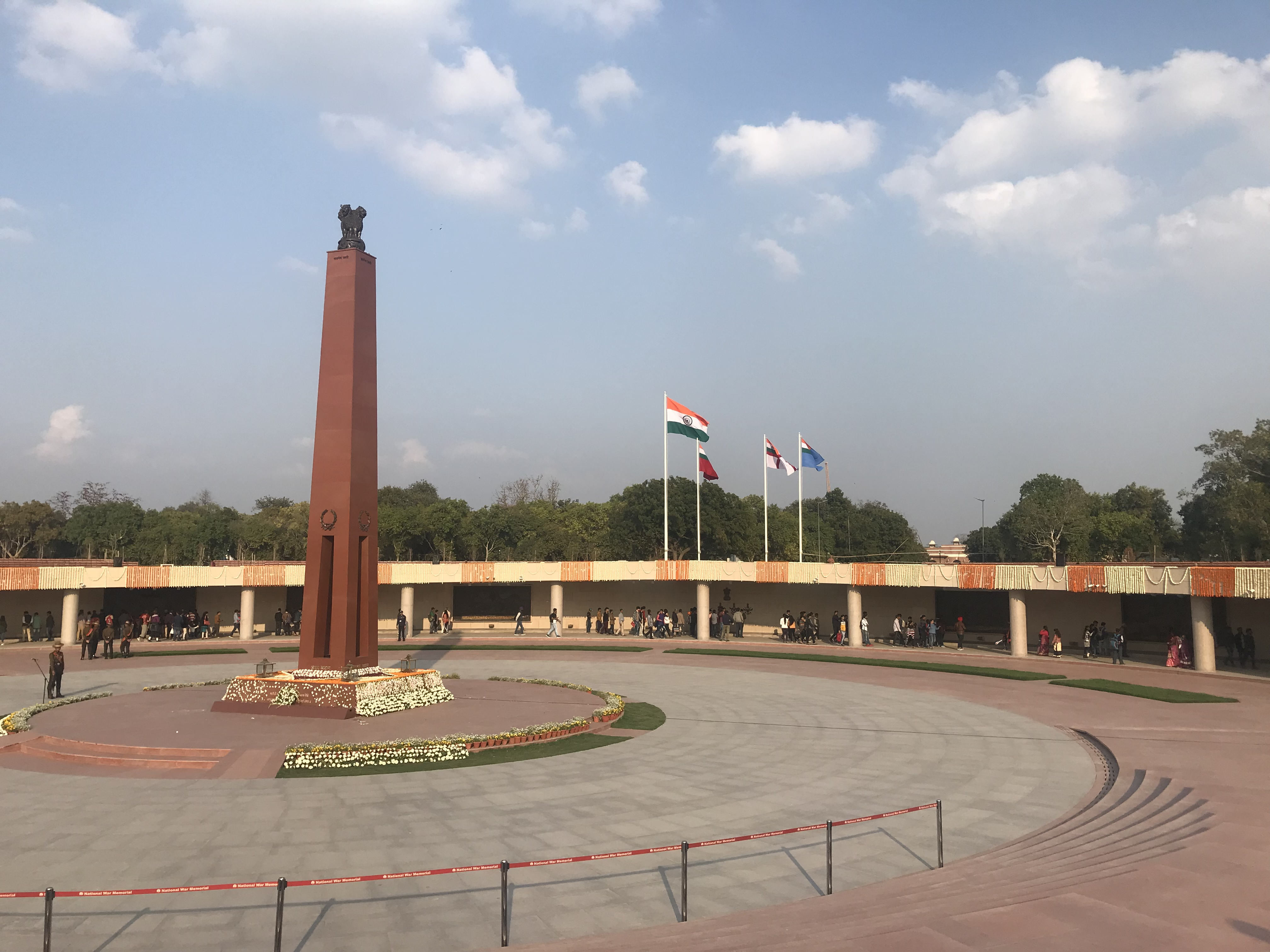 The National War Memorial